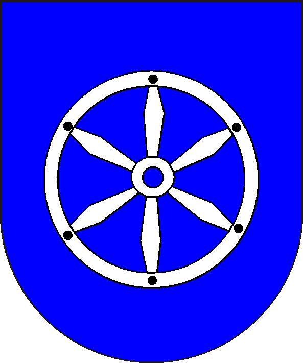 coats of arms of the lordship of Falkenstein